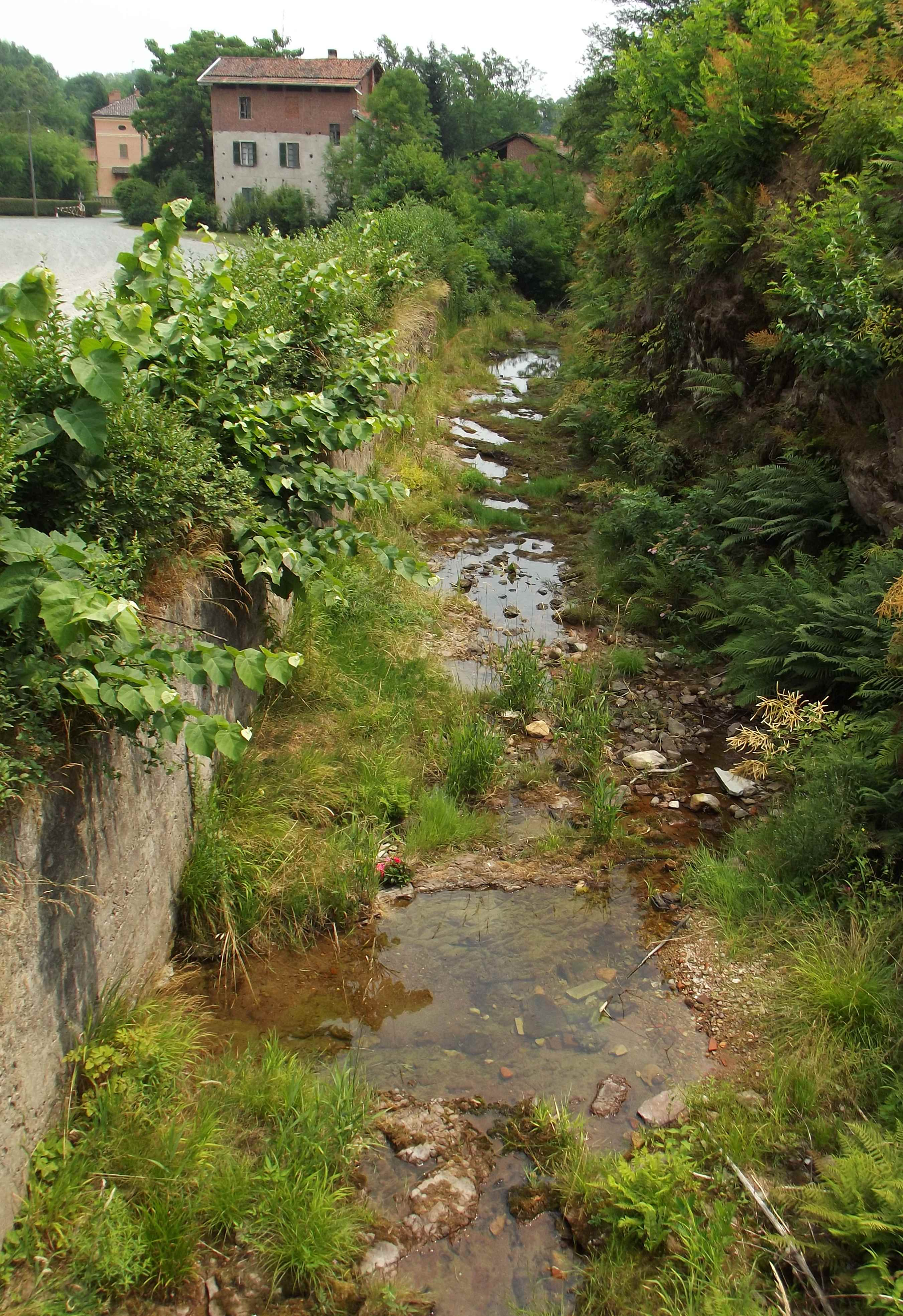 Strona creek in Boca (NO, Italy) near Crocifisso Sanctuary